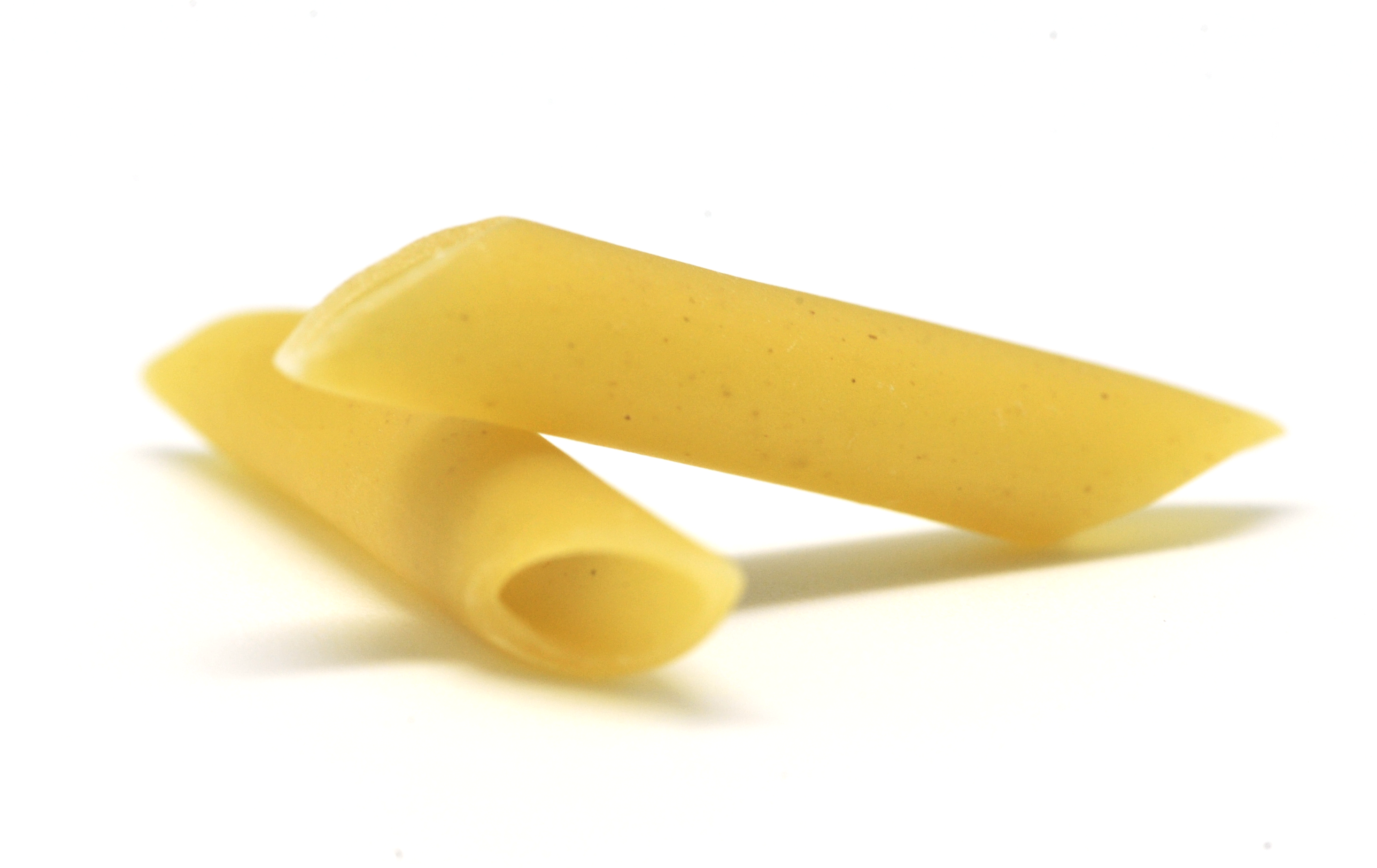 closeup on penne lisce